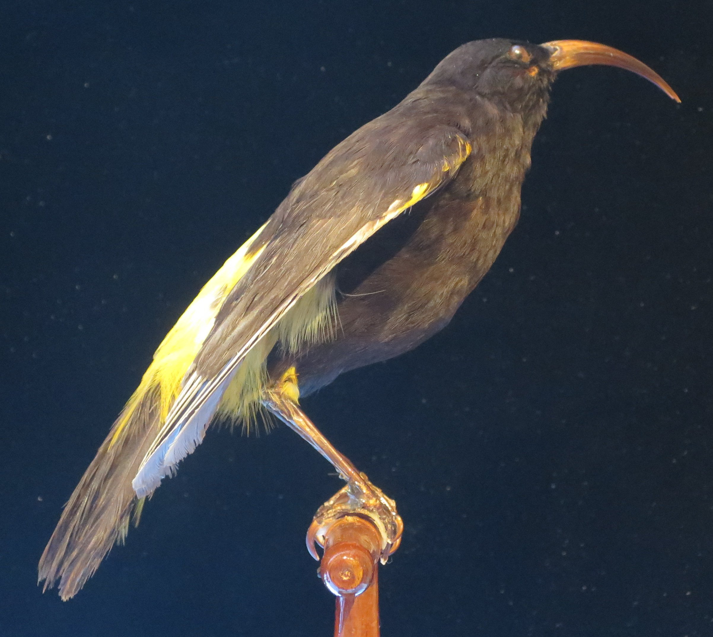 Drepanis pacifica (Gmel.), Bishop Museum, Honolulu